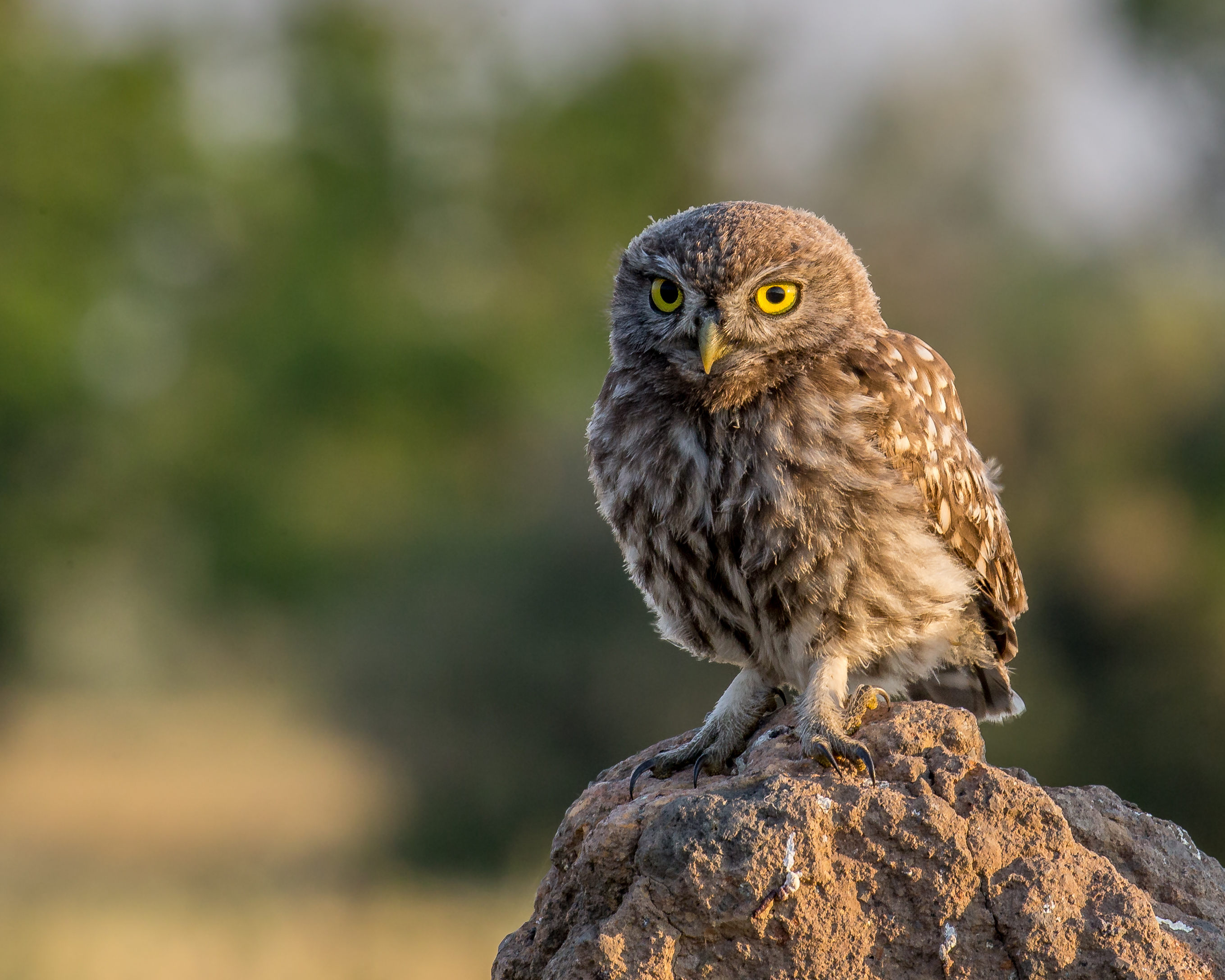 A little owl perches on a rock looking for prey. Taken in Hungary.